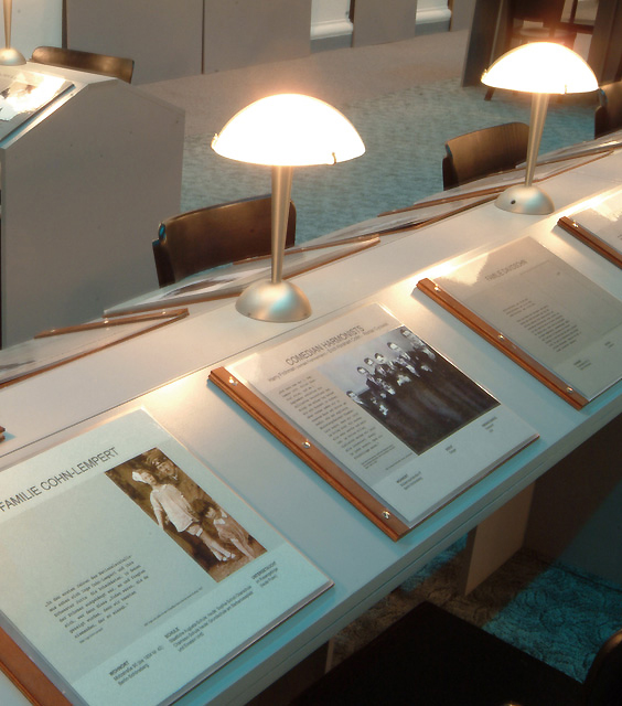 Biographical albums on display for study in the permanent exhibition 'We were Neighbours once - Biographies of Jews in Schöneberg and Tempelhof under the Nazi regime' in the exhibition hall of the Rathaus Schöneberg (Schöneberg town hall)